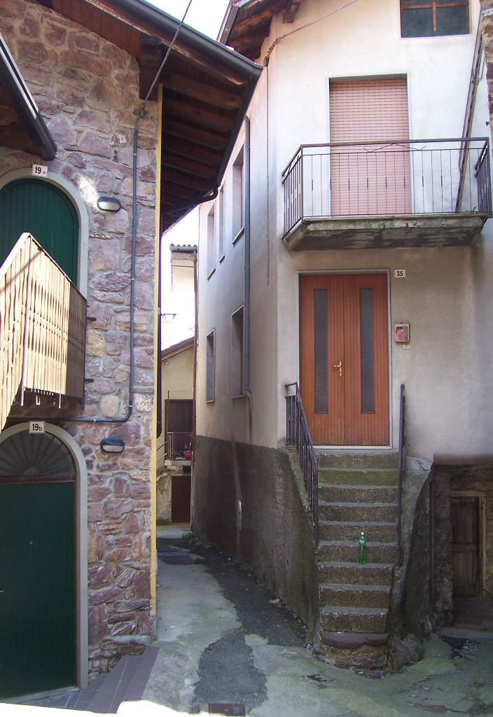 House, Anfurro, Val Camonica